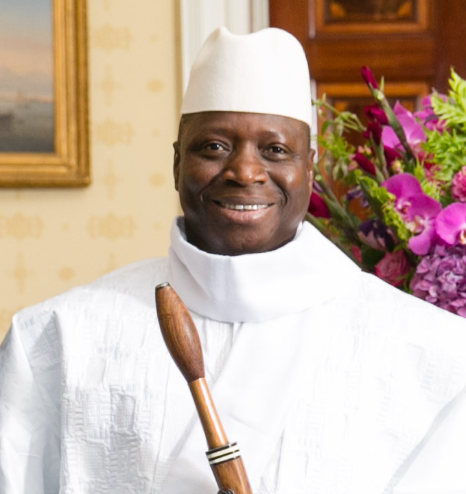 Yahya Jammeh